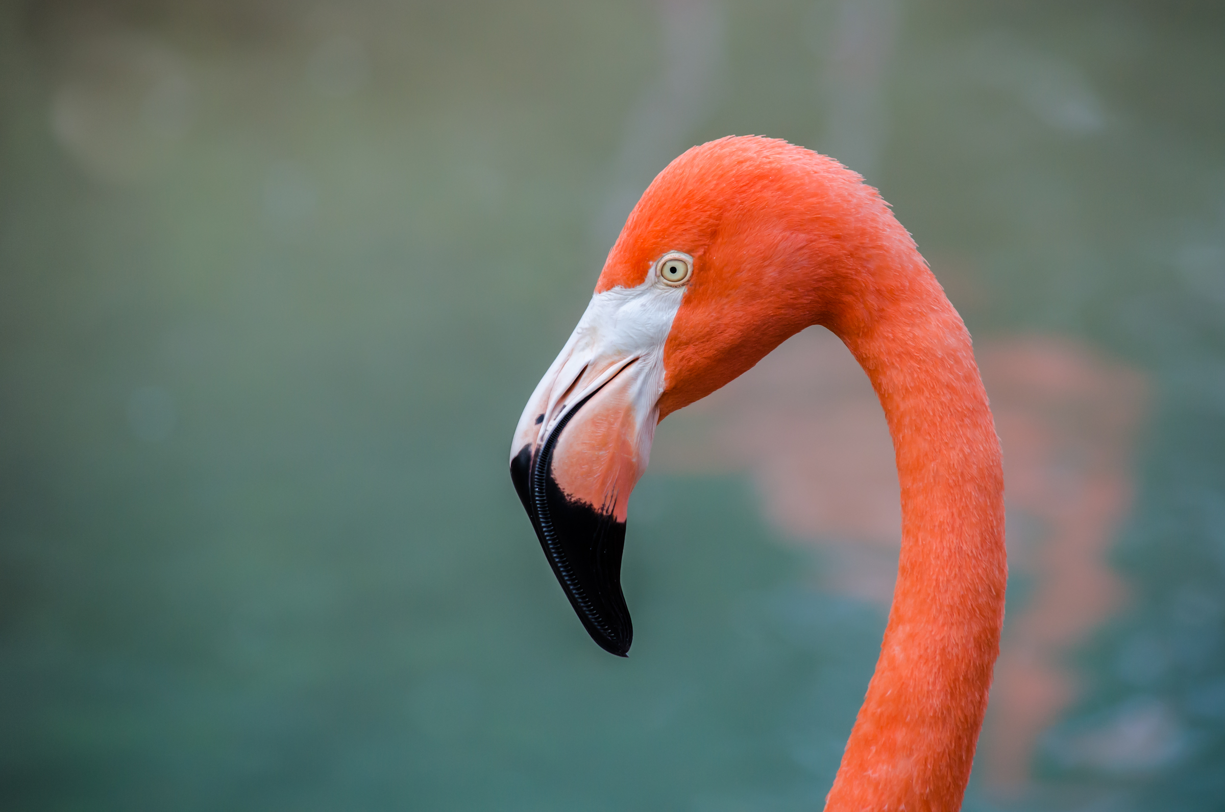 American Flamingo (Phoenicopterus ruber) at the Nashville Zoo, Nashville, TN.